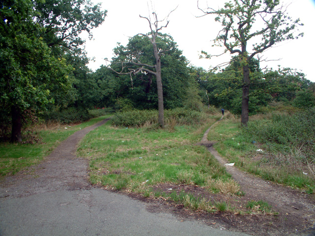 Long Lane Woods, Croydon. 15 acres of rat-infested and litter-strewn woodland beside Long Lane, open all the time to the public. It was shown on Thomas Bainbridges map of Croydon in 1800. The area has remained almost unaltered - litter louts, lovers and lurkers excepted - but surrounding fields have been replaced by houses and gardens.